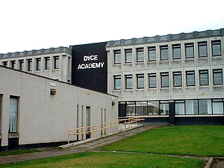 Exterior of the Dyce Academy school from Riverside Drive